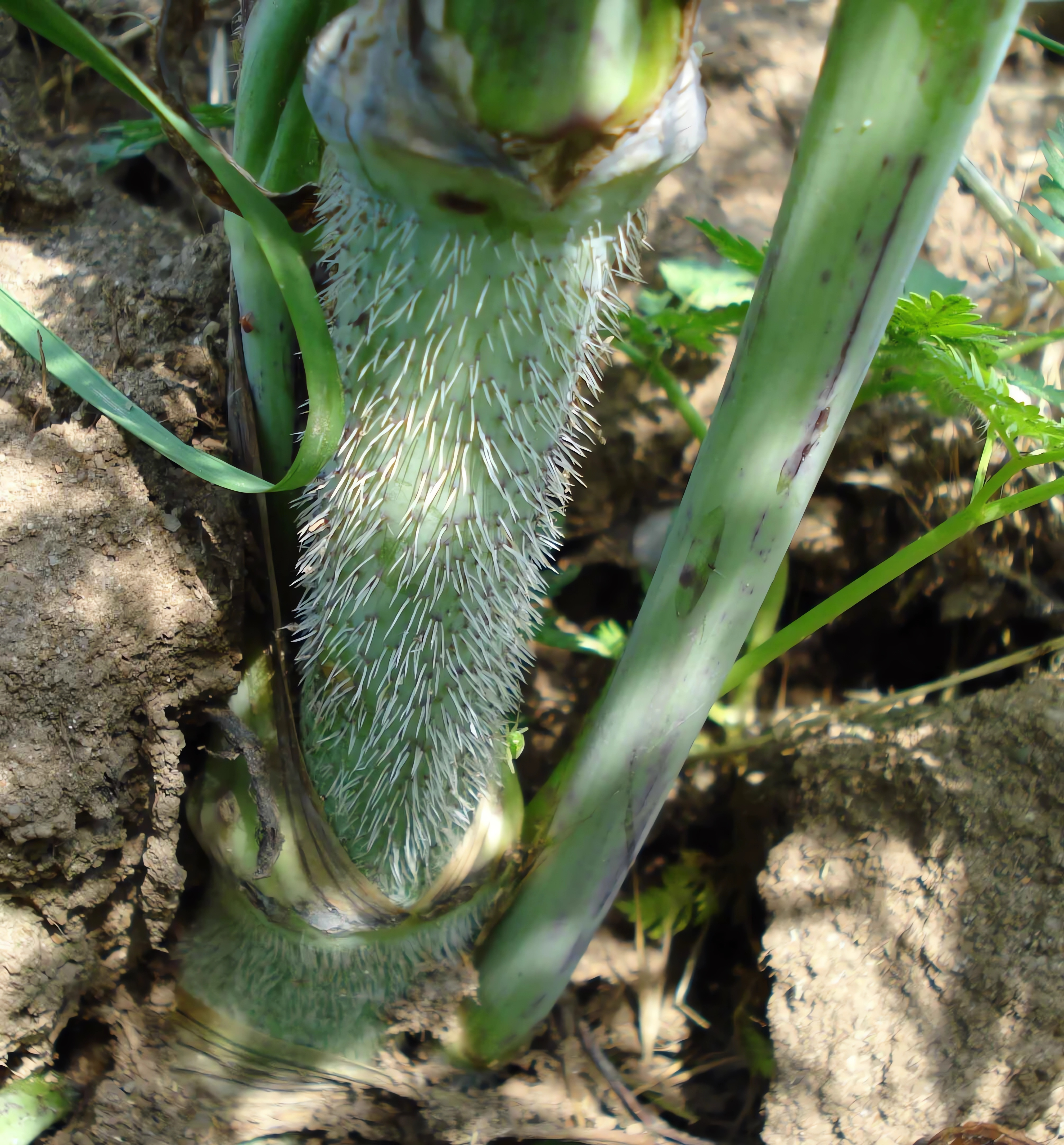 Chaerophyllum bulbosum (Unterfranken, Germany)